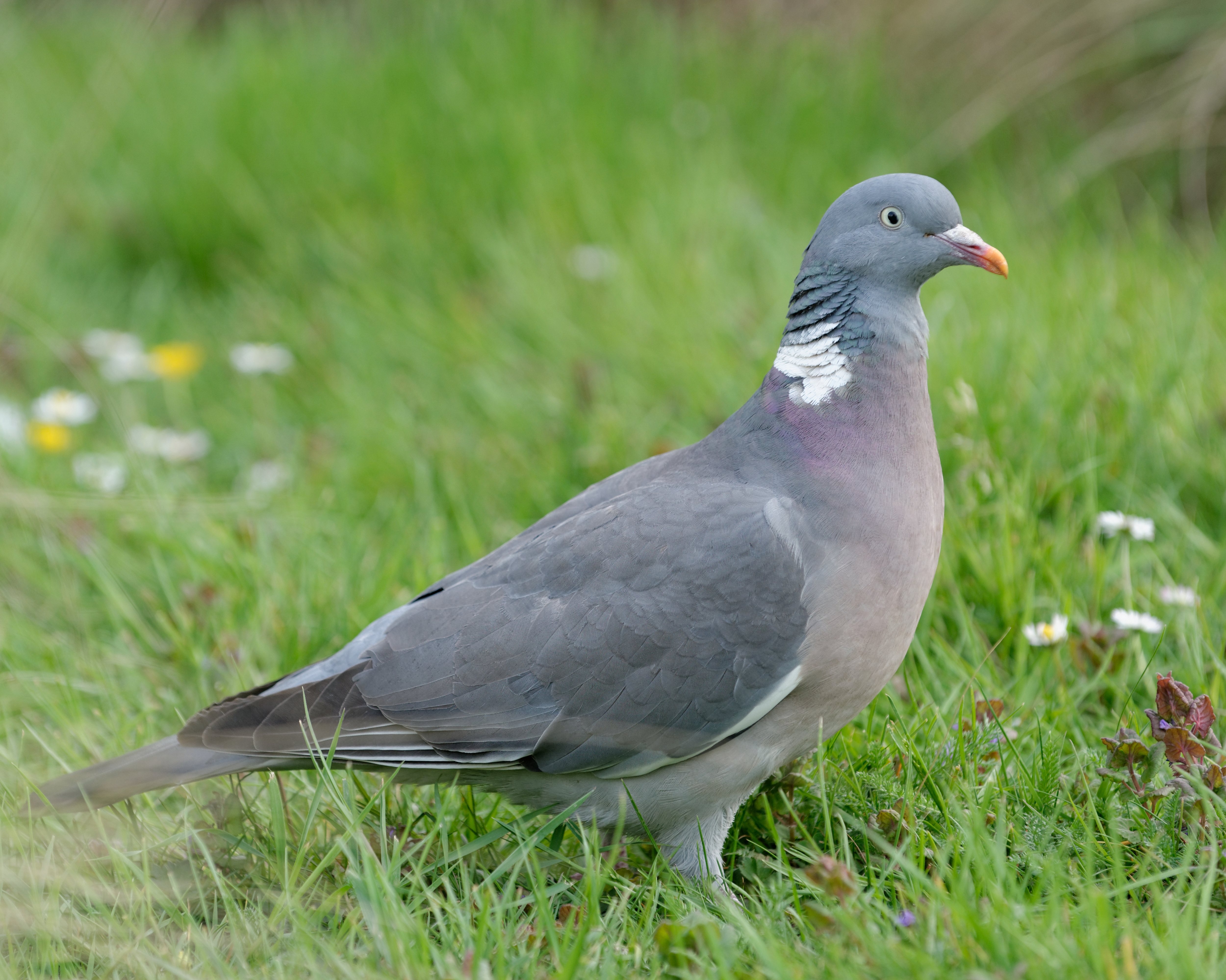 Common Wood Pigeon (Columba palumbus) in the Jardin des Plantes, Paris.